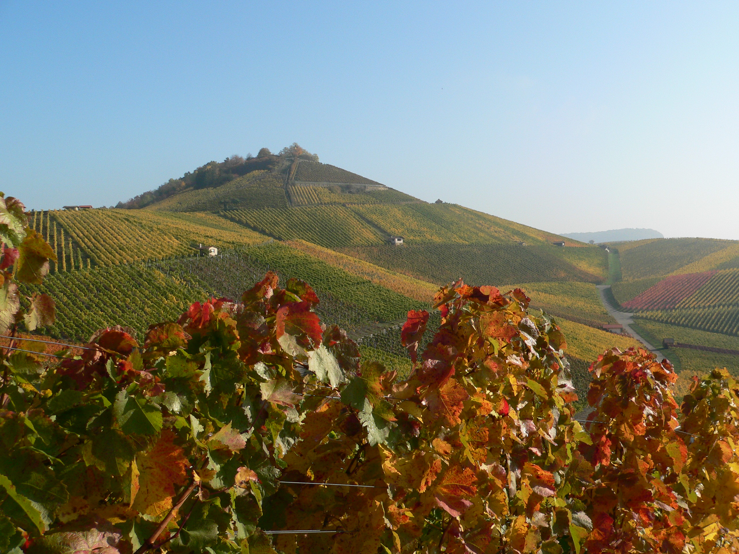 Vineyards on mountain "Scheuerberg" of the City Neckarsulm